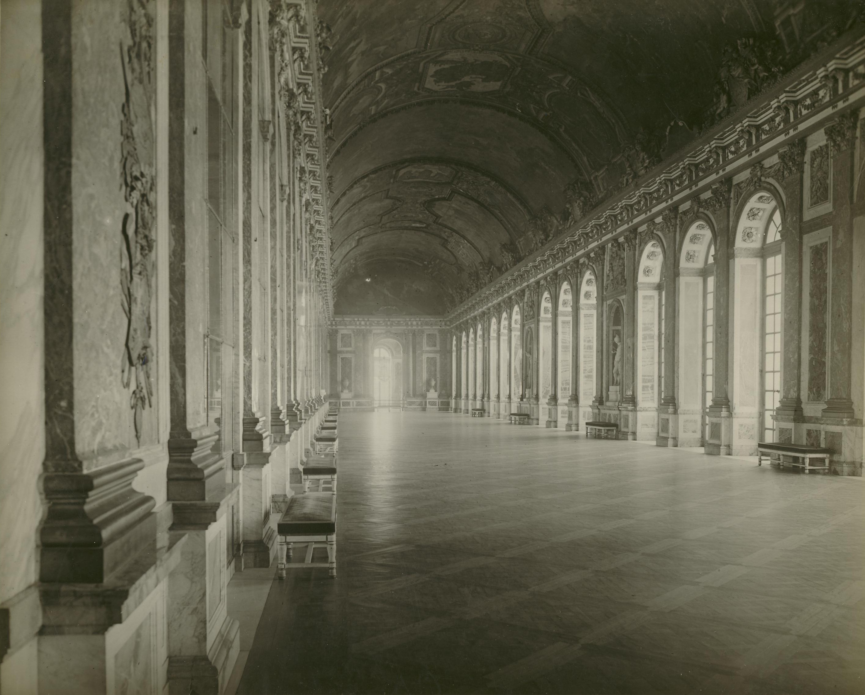 Local Accession Number: 192 Description: The location in which the peace treaty was signed. Photographer: Unknown Source: Research Library, 20th Century Fox Size: 8x10 Medium: Print, Black and White Date: 1919